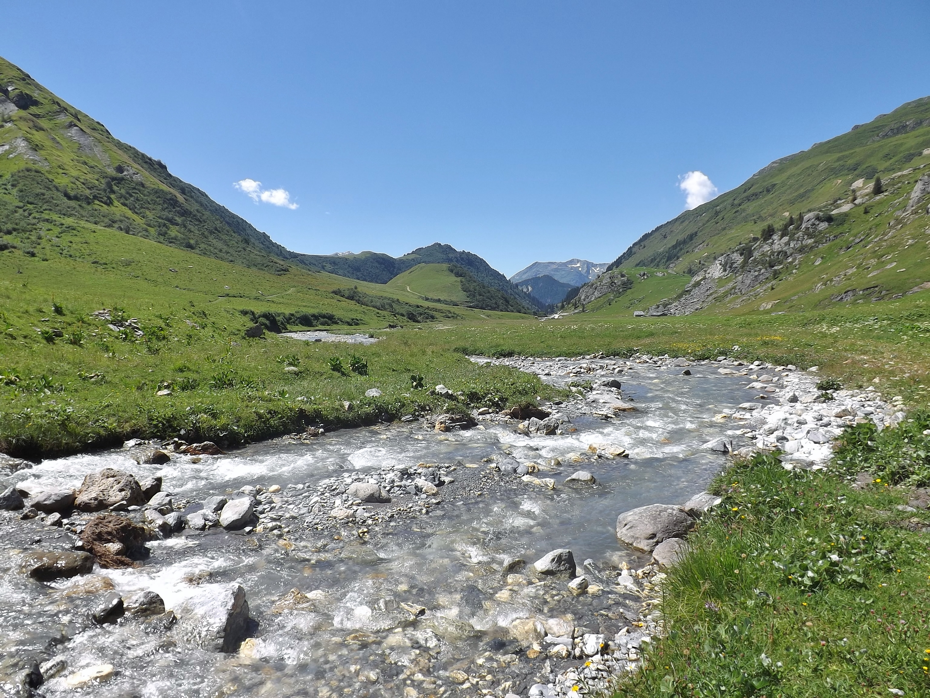 Sight of the Gittaz river, flowing into the barrage de la Gittaz lake and dam (situated one kilometer straight ahead), on the French commune of Beaufort, in Savoie.